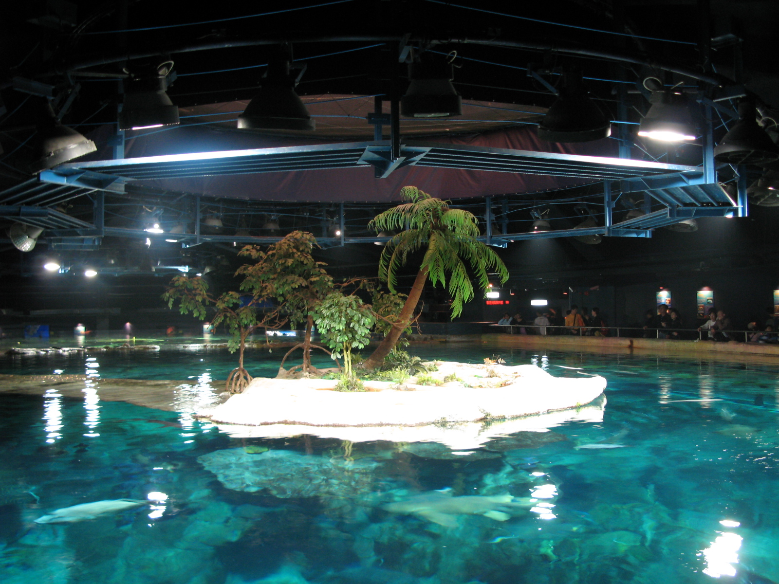 Ocean Park Atoll Reef 海洋公園海洋館